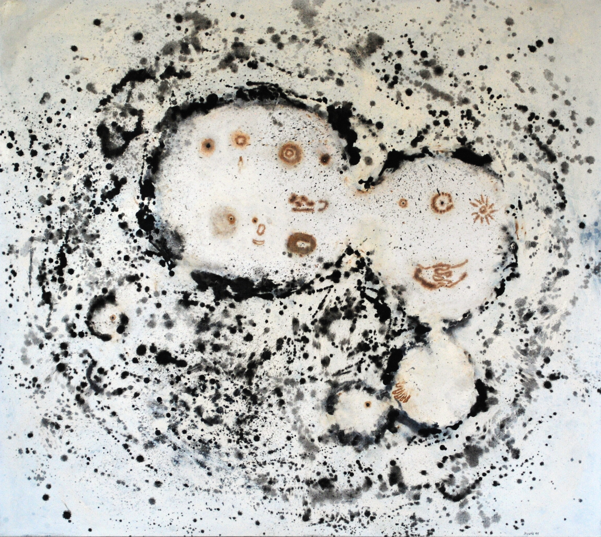 Pavel Besta: Náš příběh, oil on canvas, 165 x 158 cm, 2011.